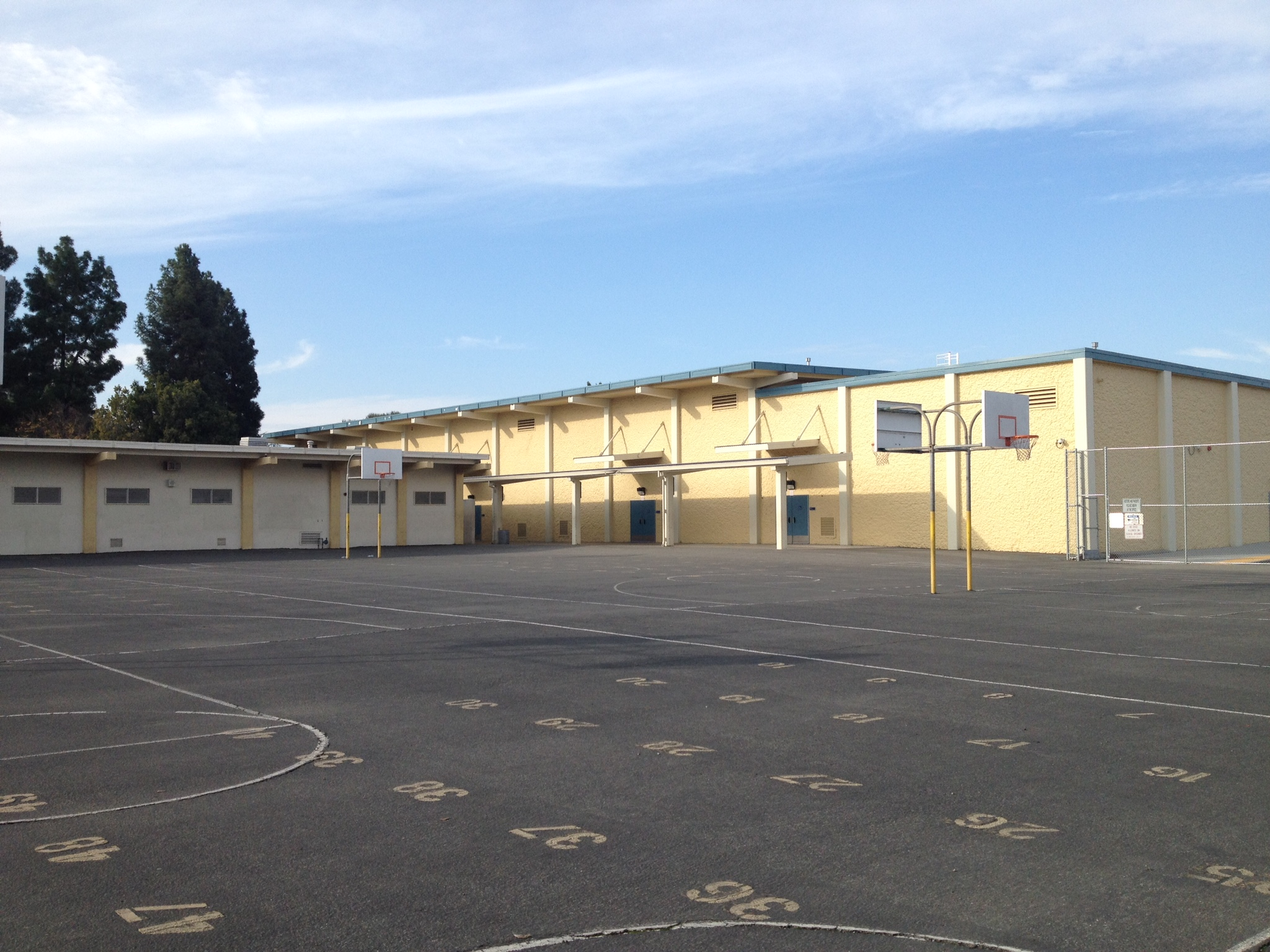 Peterson Middle School's Three Gyms, at around 1:35 PM. Taken from the south.